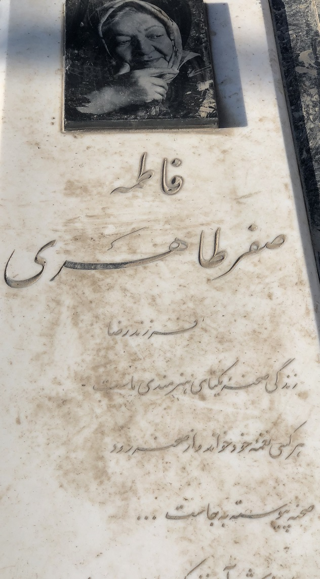 Beheshte Zahra Cemetery